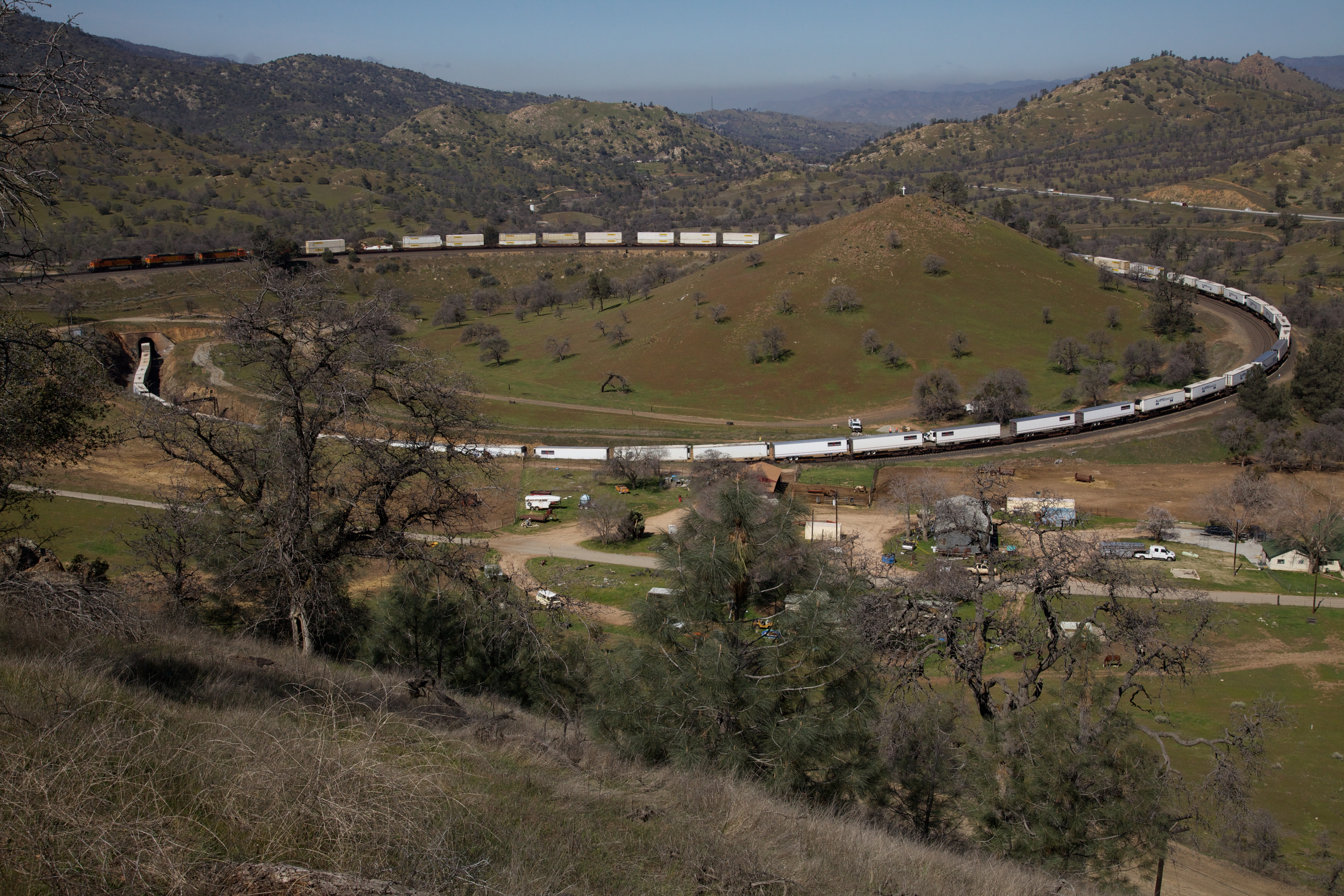 BNSF train on Tehachapi Loop with mixed TOFC and double-stack COFC consist